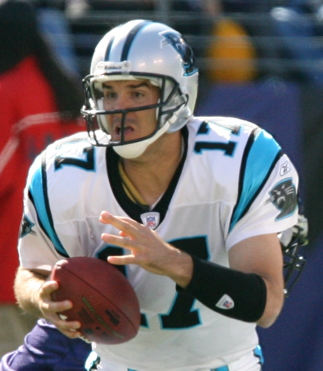 Carolina Panthers quarterback Jake Delhomme plays at M&T Bank Stadium of Baltimore in 2006.